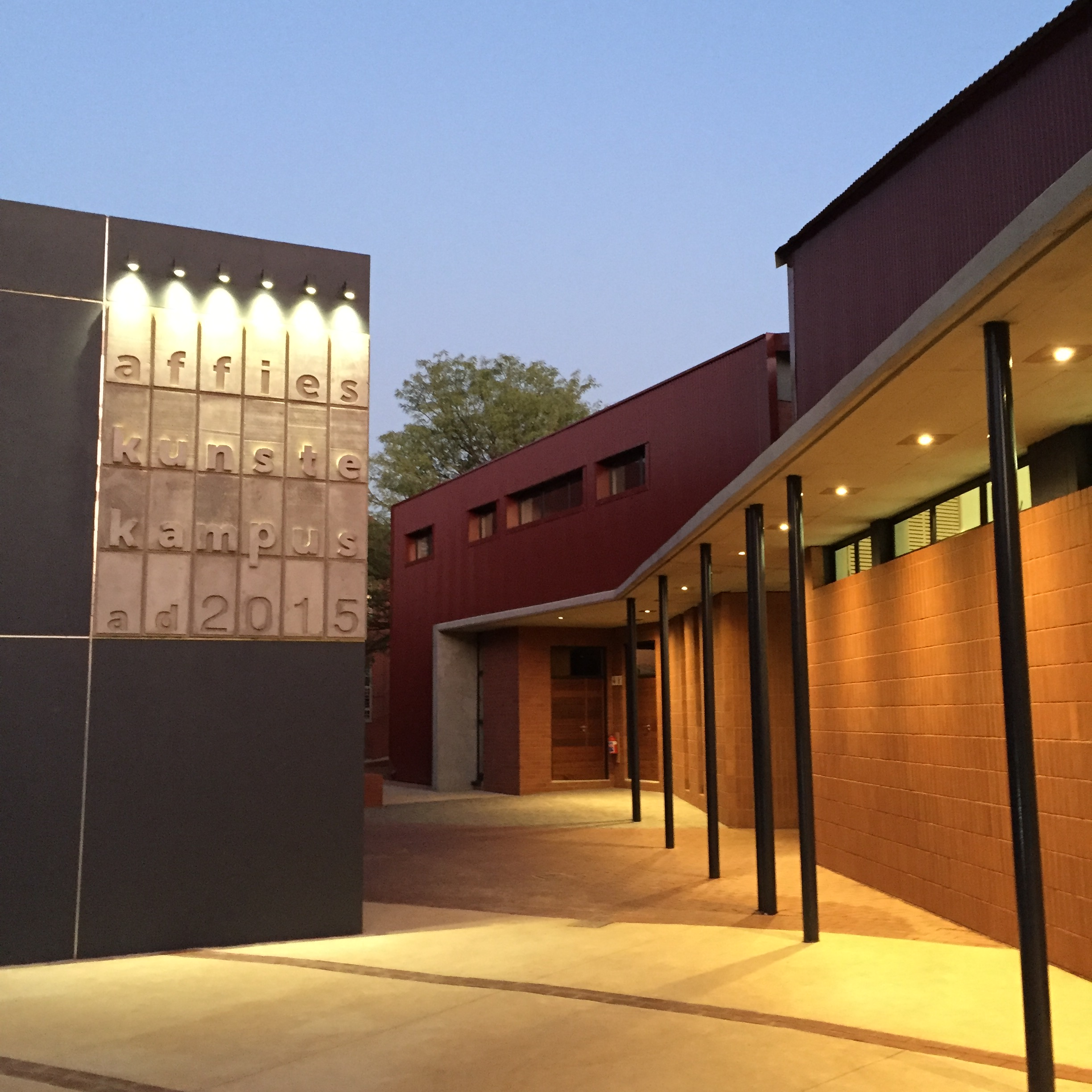 AHS Kunstekampus